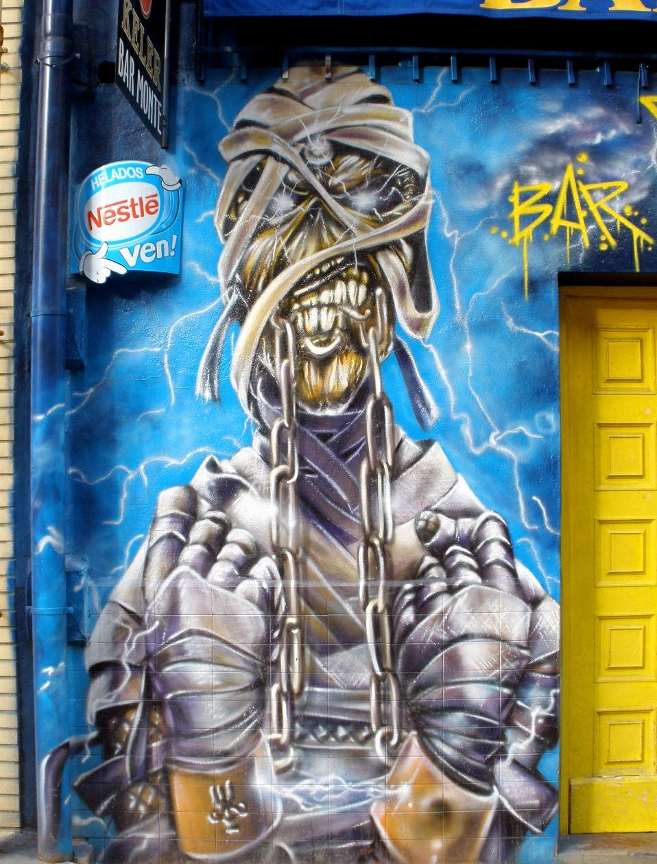 Graffiti en el barrio de Zaramaga de Vitoria-Gasteiz. Imagen tomada el 29-12-2010